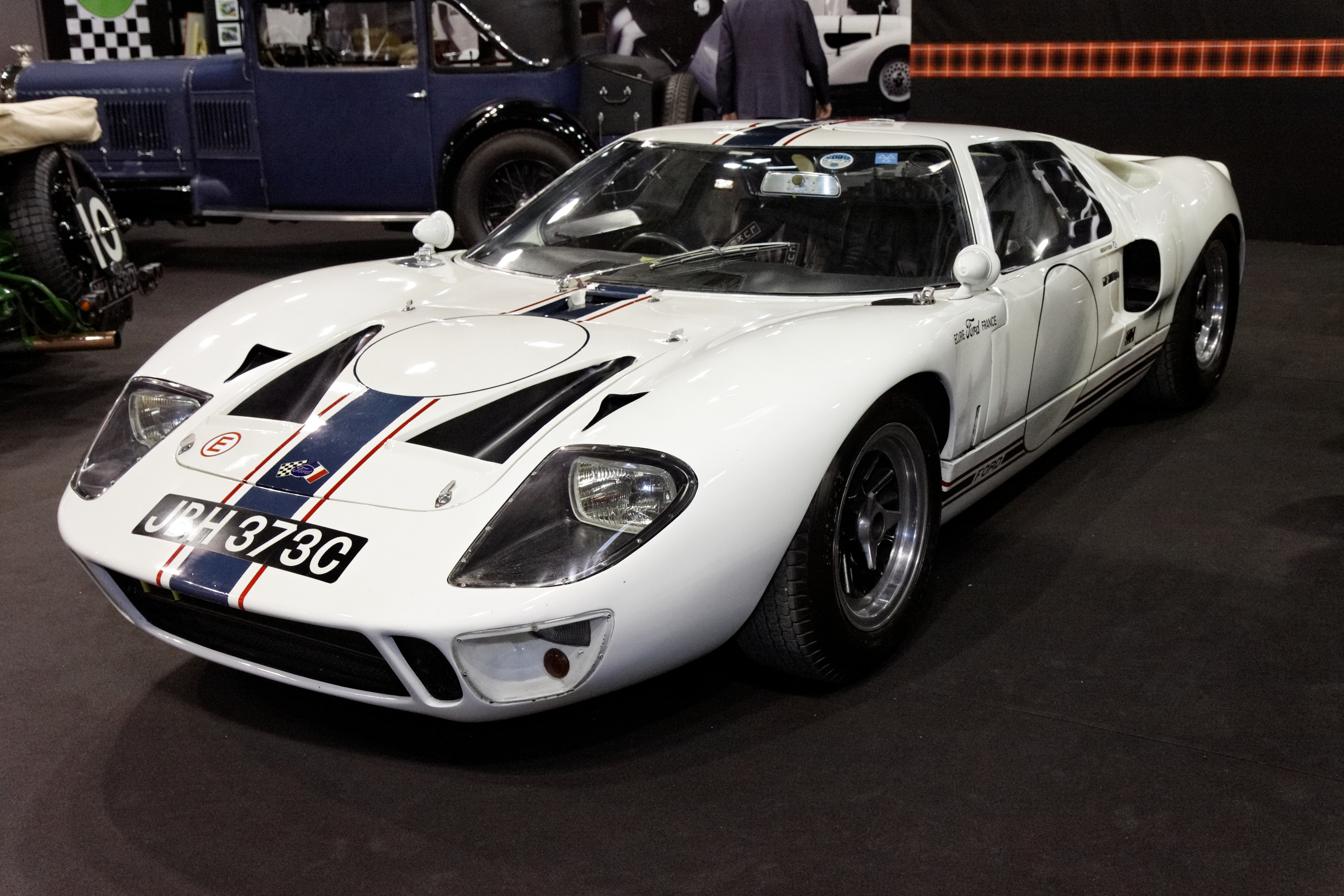 Ford GT 40